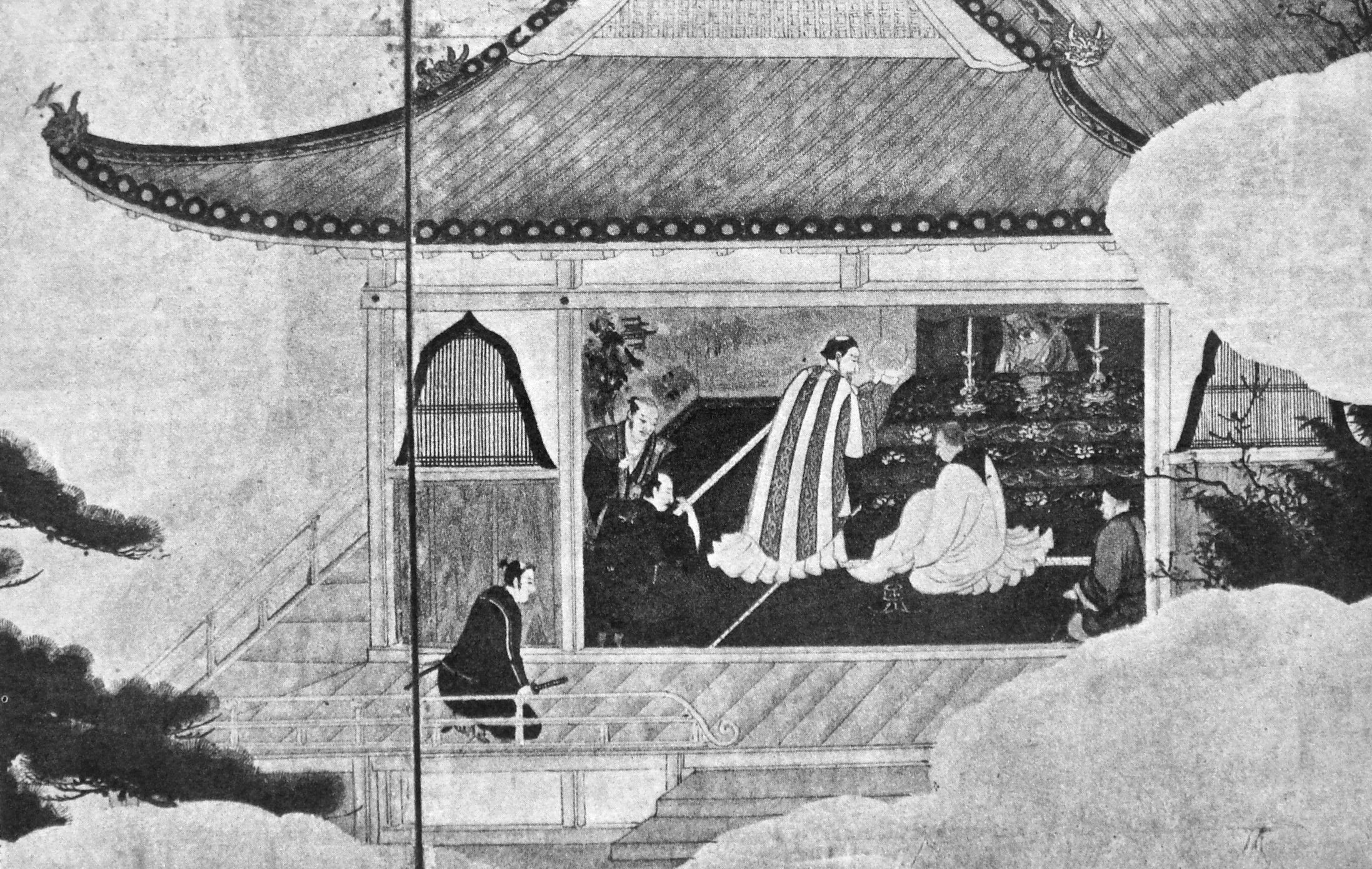 Celebrating A Christian Mass In Japan